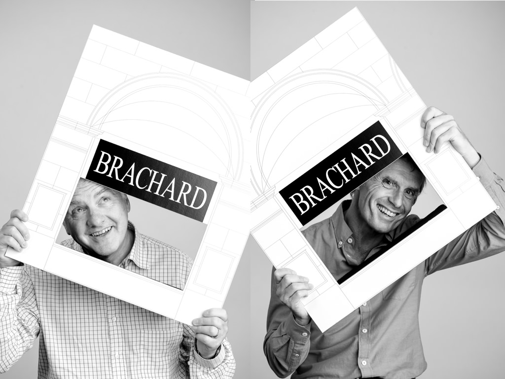 Portrait de Jean-Marc Brachard et Pascal Vuarnier